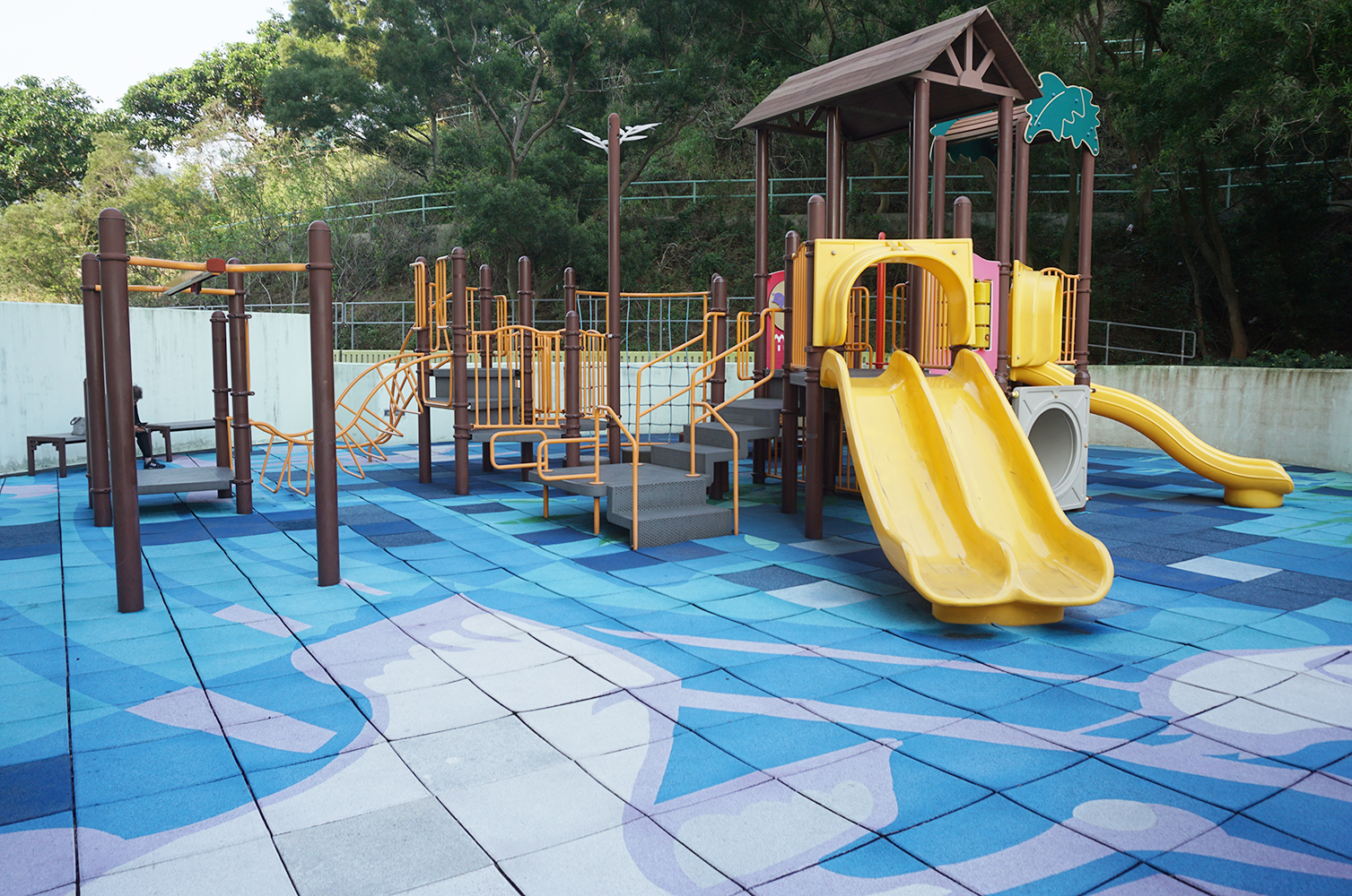 Mei Tung Estate in Kowloon City, Hong Kong.